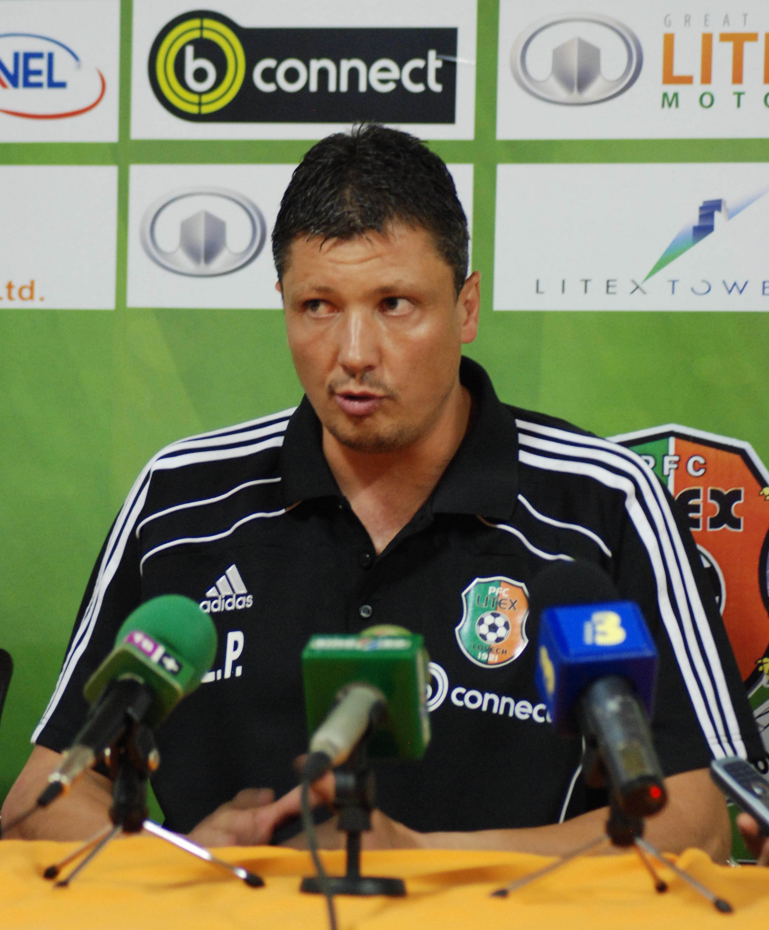 Lyuboslav Penev